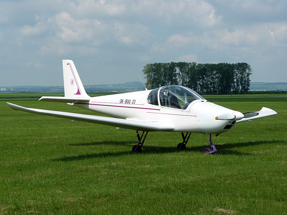 KP2U Sova, OK-BUU 23